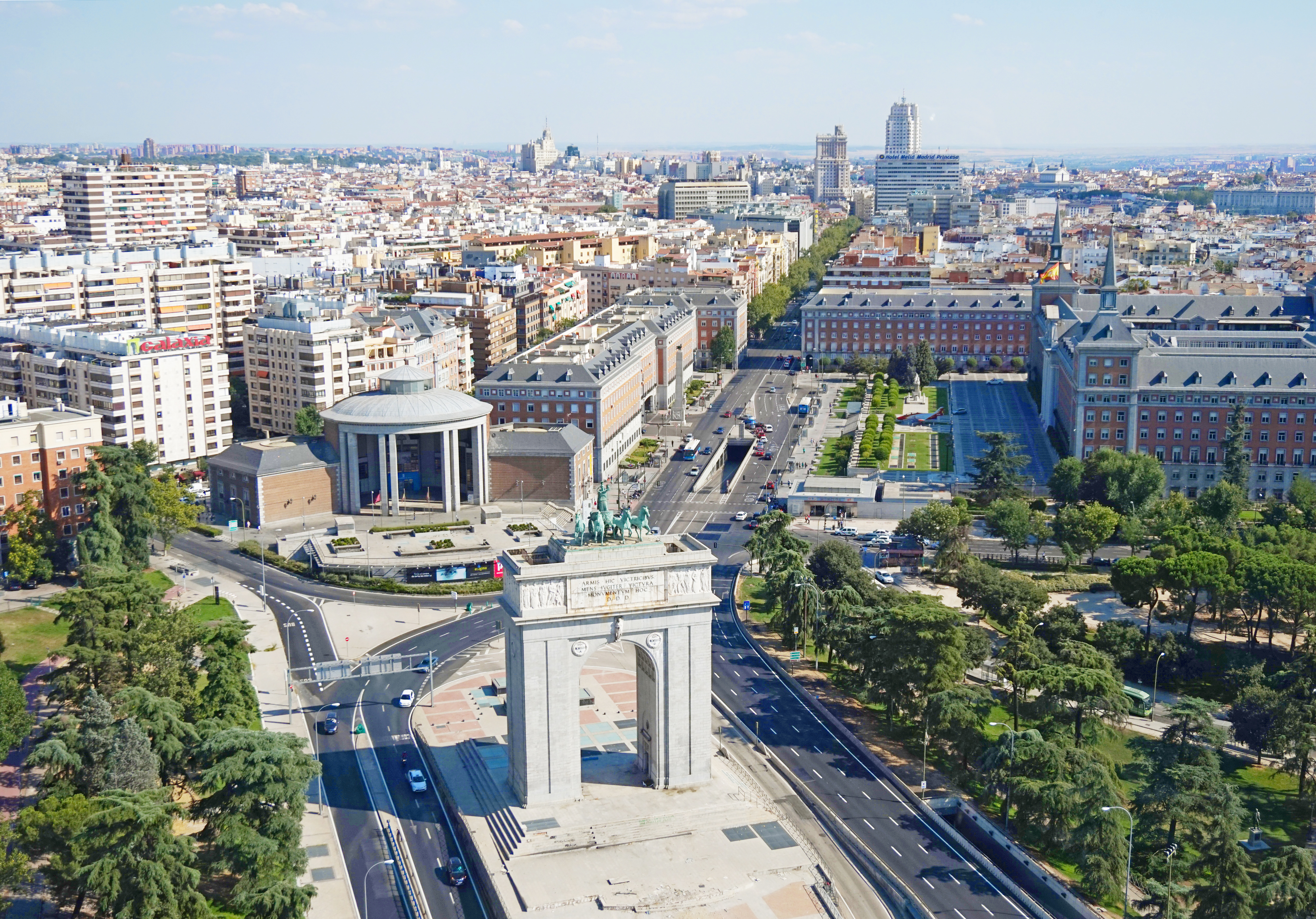 View to Arco de la Victoria and the streets "Avenida Arco de La Victoria" and "Calle de la Princesa" in Madrid, Spain.This photograph was taken with a Sony ILCE-5000